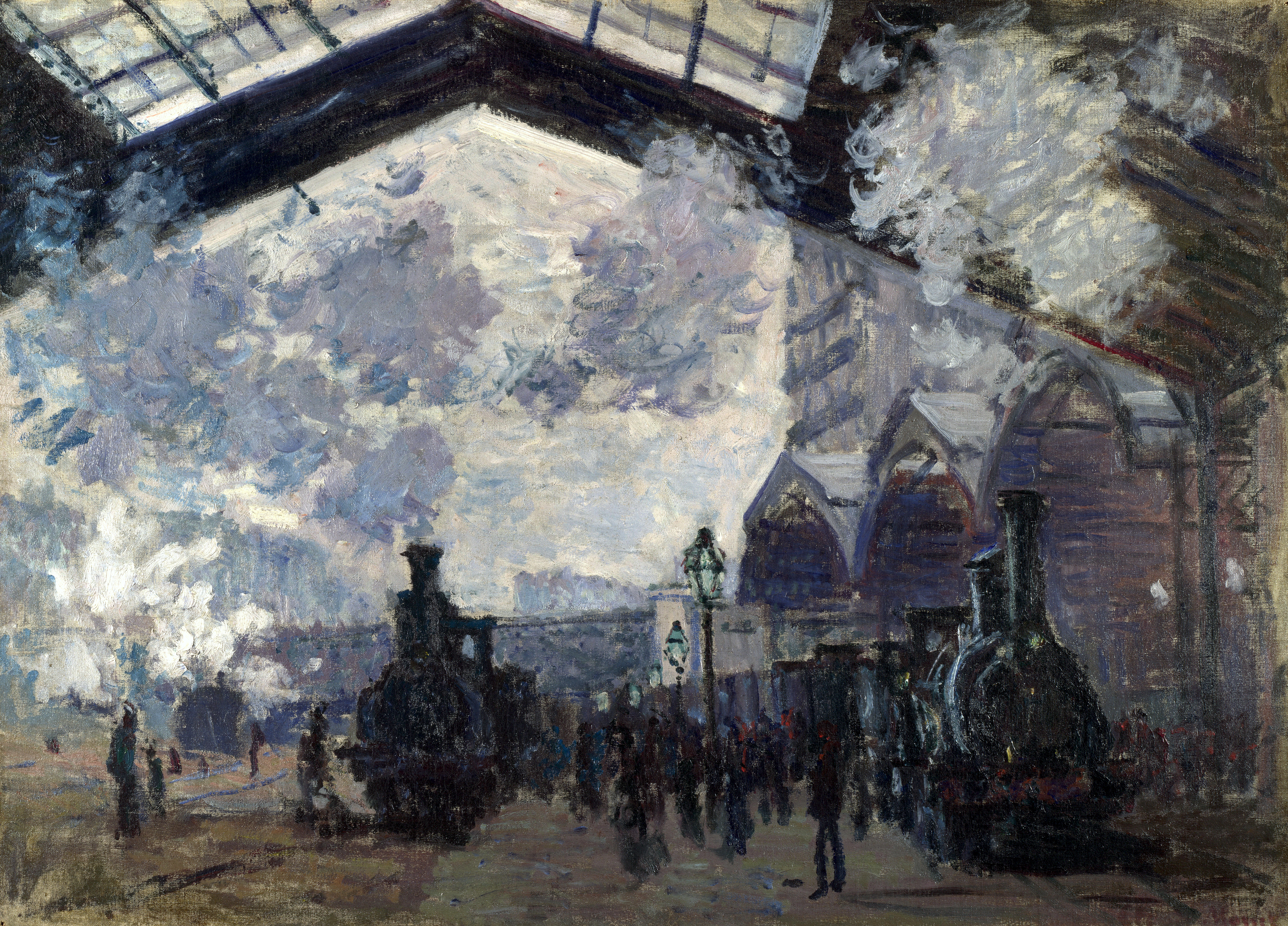 After his return to France from London, Monet lived from 1871-78 at Argenteuil, on the Seine near Paris. In January 1877 he rented a small flat and a studio near the Gare St-Lazare, and in the third Impressionist exhibition which opened in April of that year, he exhibited seven canvases of the railway station. This painting is one of four surviving canvases representing the interior of the station. Trains and railways had been depicted in earlier Impressionist works (and by Turner in his 'Rain, Steam and Speed'), but were not generally regarded as aesthetically palatable subjects. Monet's exceptional views of the Gare St-Lazare resemble interior landscapes, with smoke from the engines creating the same effect as clouds in the sky. Swift brushstrokes indicate the gleaming engines to the right and the crowd of passengers on the platform.